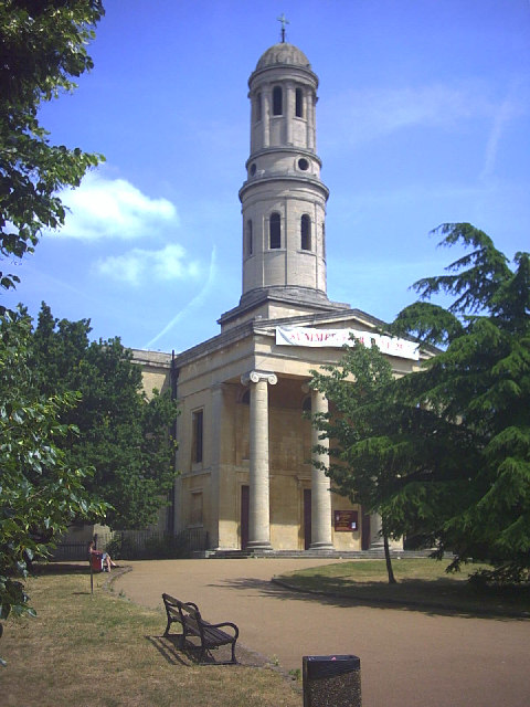 St. Anne's Church, St. Ann's Crescent, Wandsworth. East front of the church. Why they spelt the church name and the road name differently I don't know.